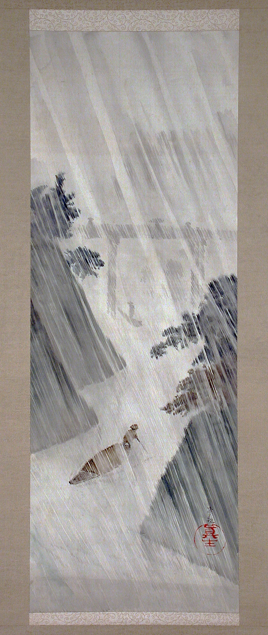 Rainy river at Tokyo, Meiji-Era